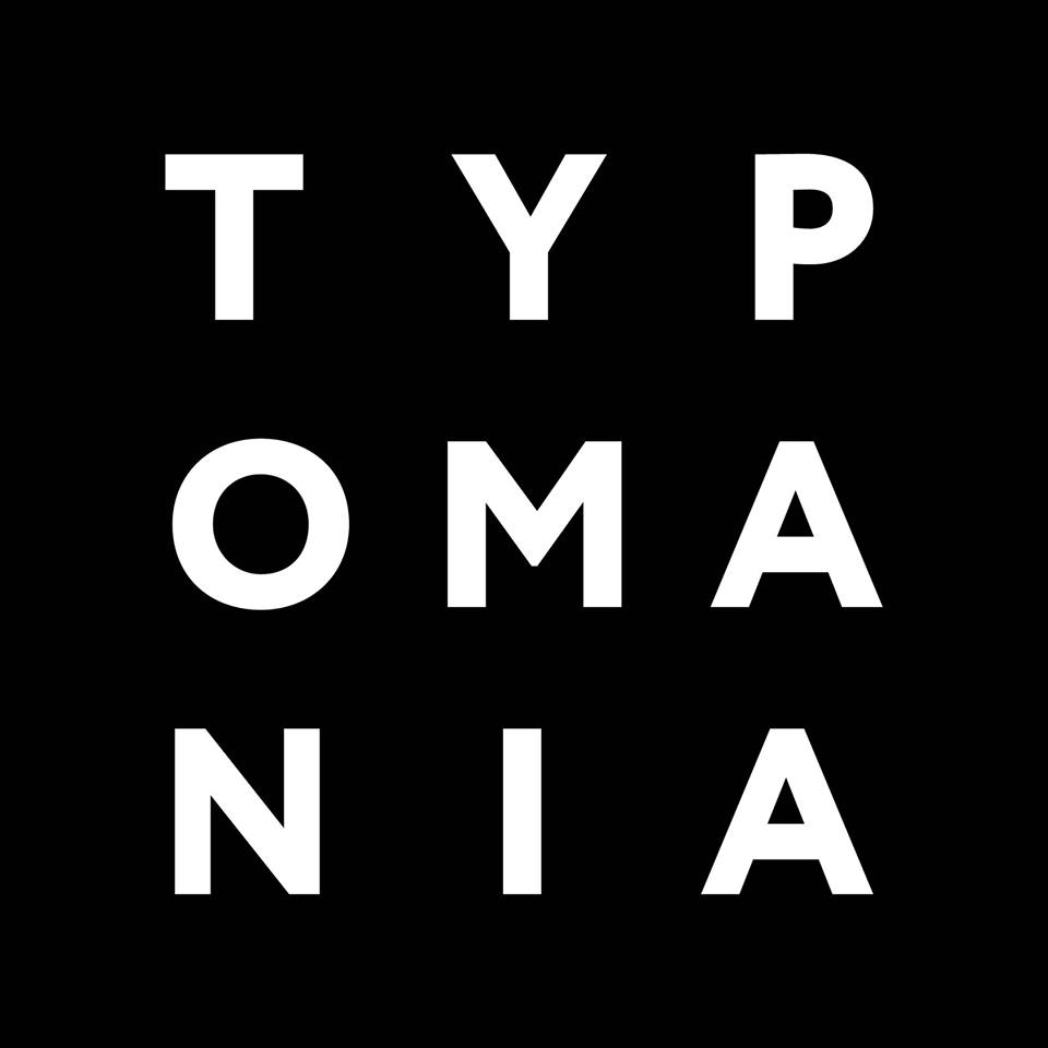 Typomania festival logo